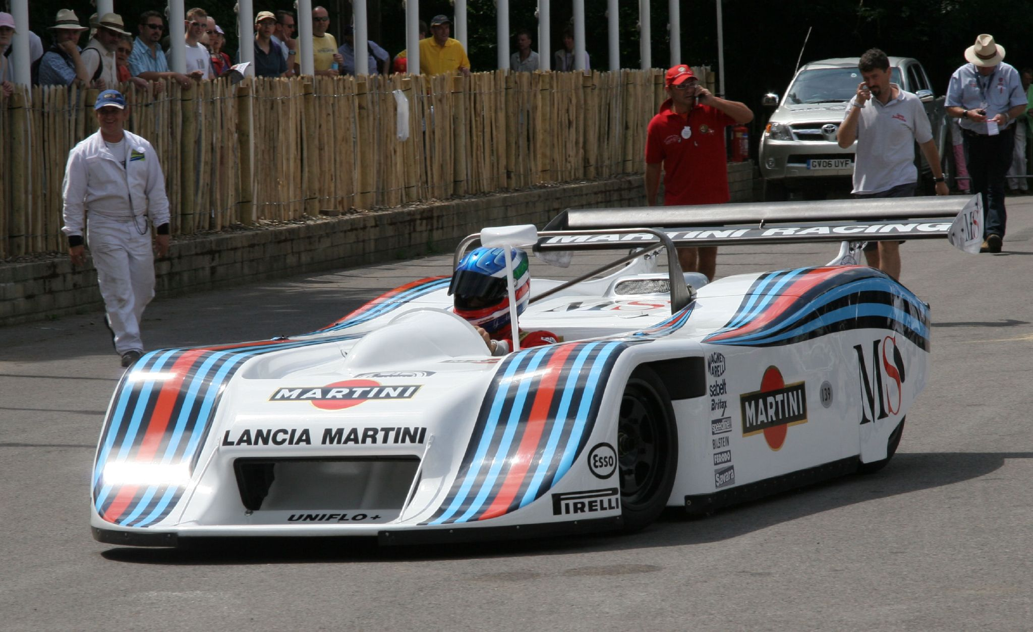 Lancia LC1, winner of the 1982 WSC championship, at the 2006 Goodwood Festival of Speed